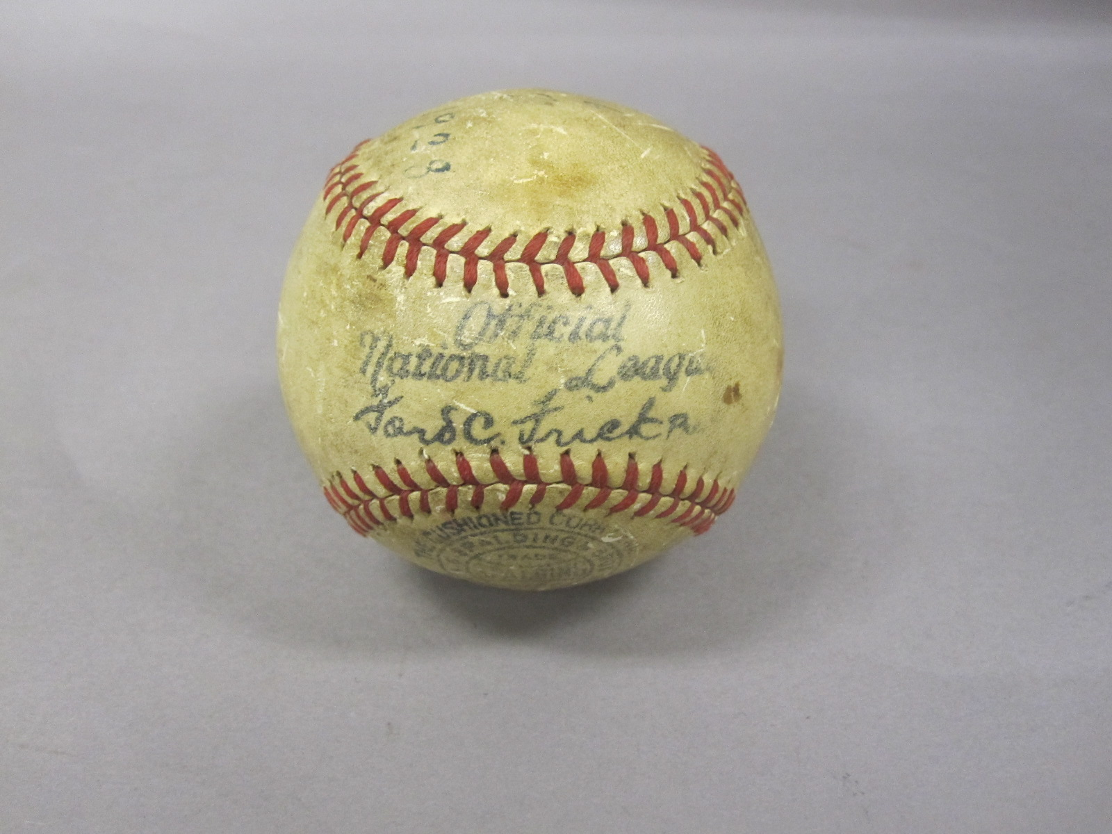 Baseball used in a game between crew members of the USS Asheville PG-21 and a team from the 2nd Fleet. The score of the game is marked on the ball: Asheville 6, 2nd Fleet 7, dated August 20th 1938. The Asheville was lost in an enemy action on March 3rd 1942. One survivor was rescued, Fireman First Class Fred F. Brown; he later died in a Prisoner of War Camp.